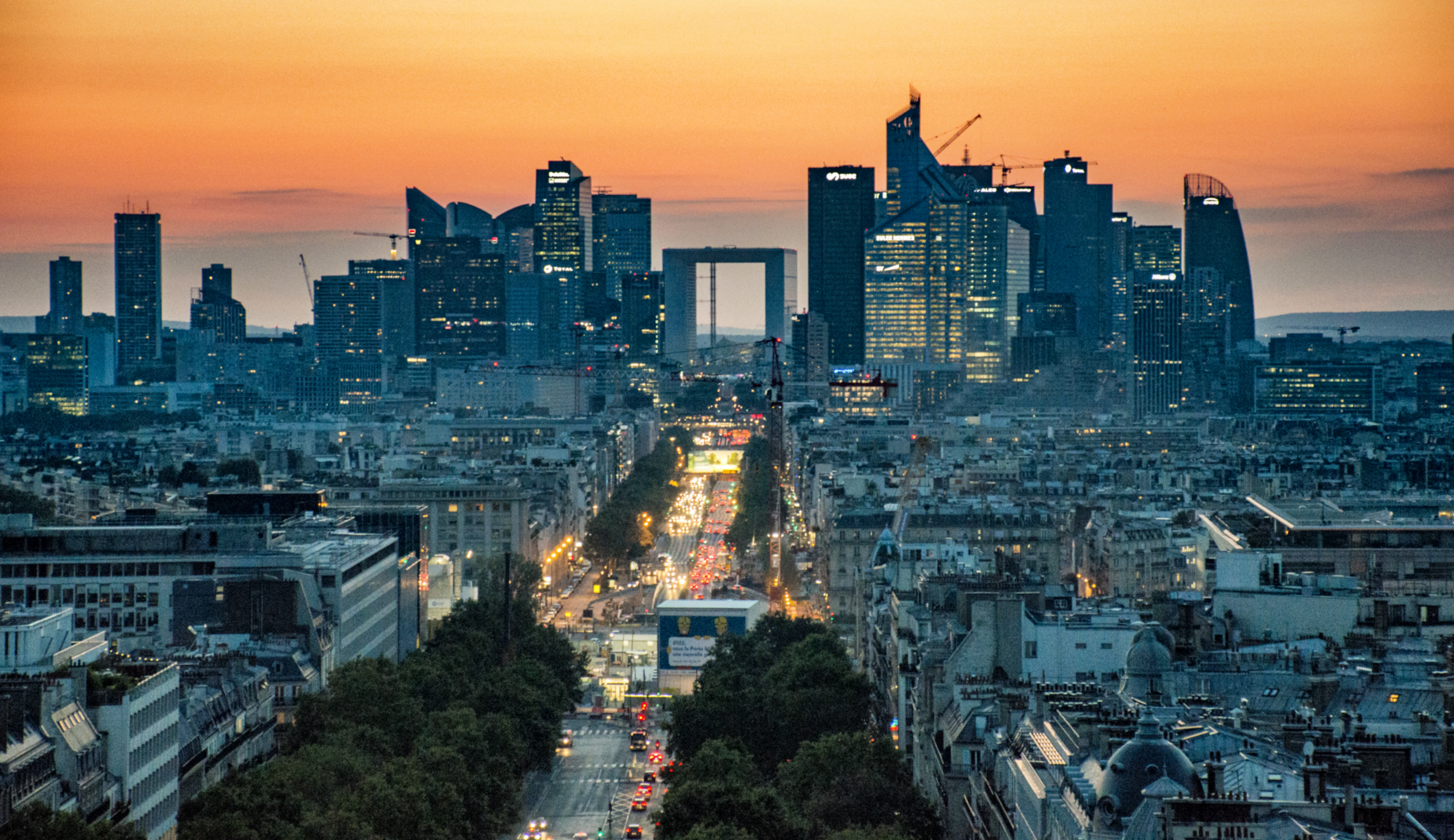 View of the Grande Arche and La Defense from Arc de Triomphe in Paris